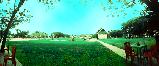 This is the town square of Poso town, Indonesia.